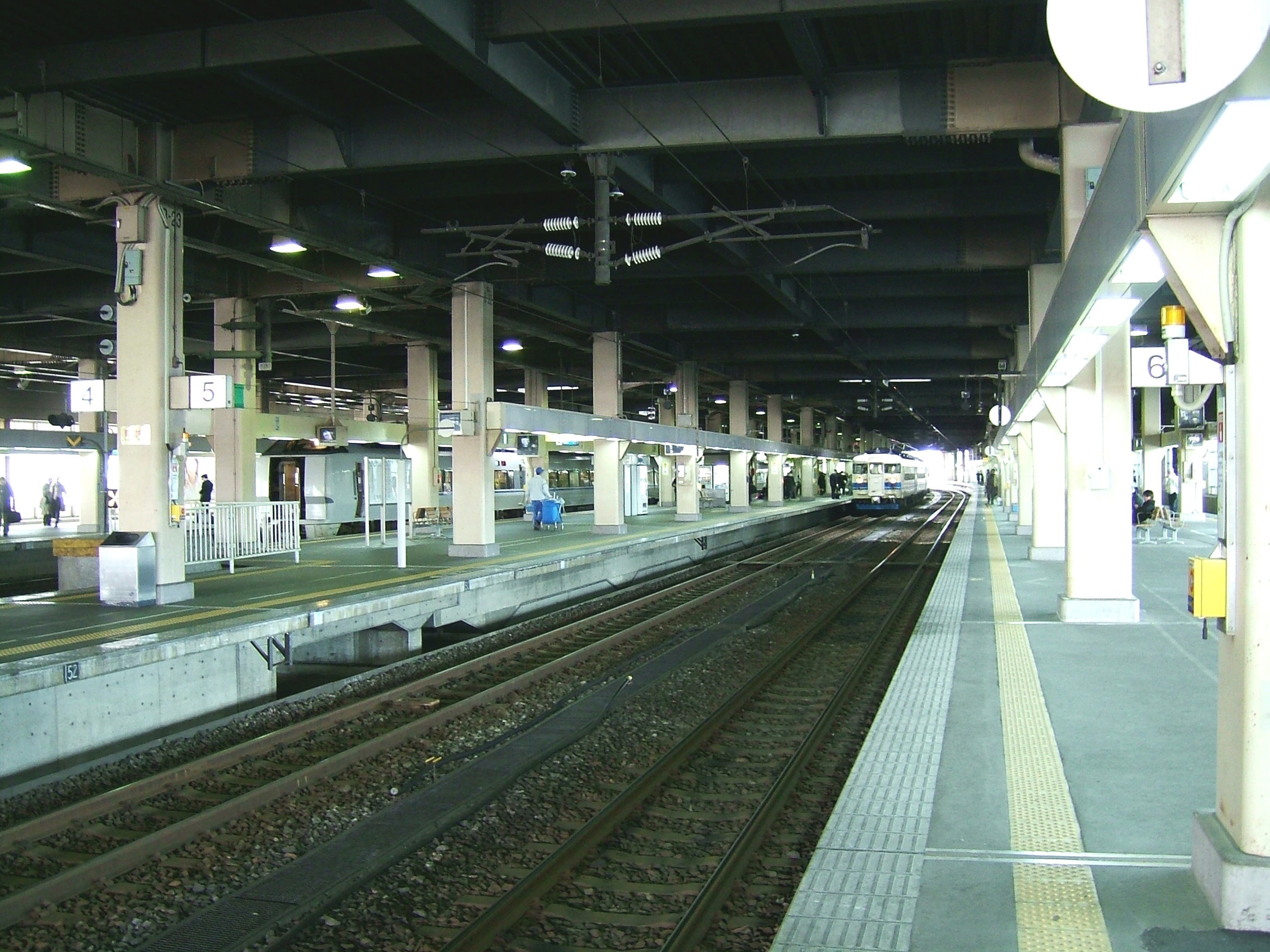 The platforms at Kanazawa Station